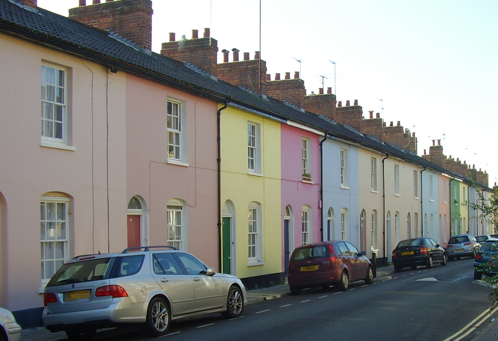 Observatory Street in Jericho, Oxford is lined with painted terraced houses on one side.